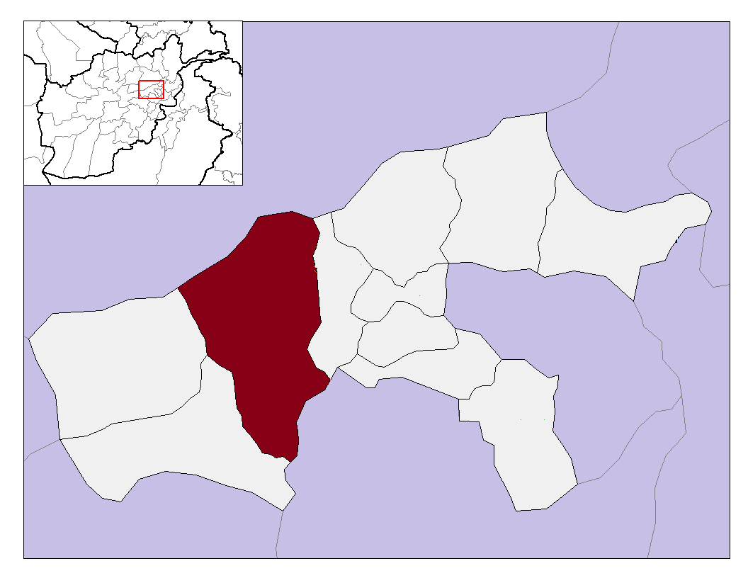 Map highlighting Ghorband District, Parvan Province, Afghanistan.